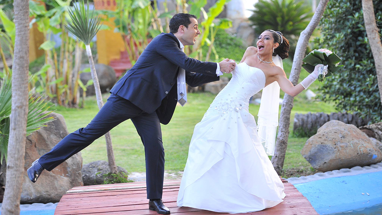 Weddings at Janna Sur Mer Damour, Lebanon